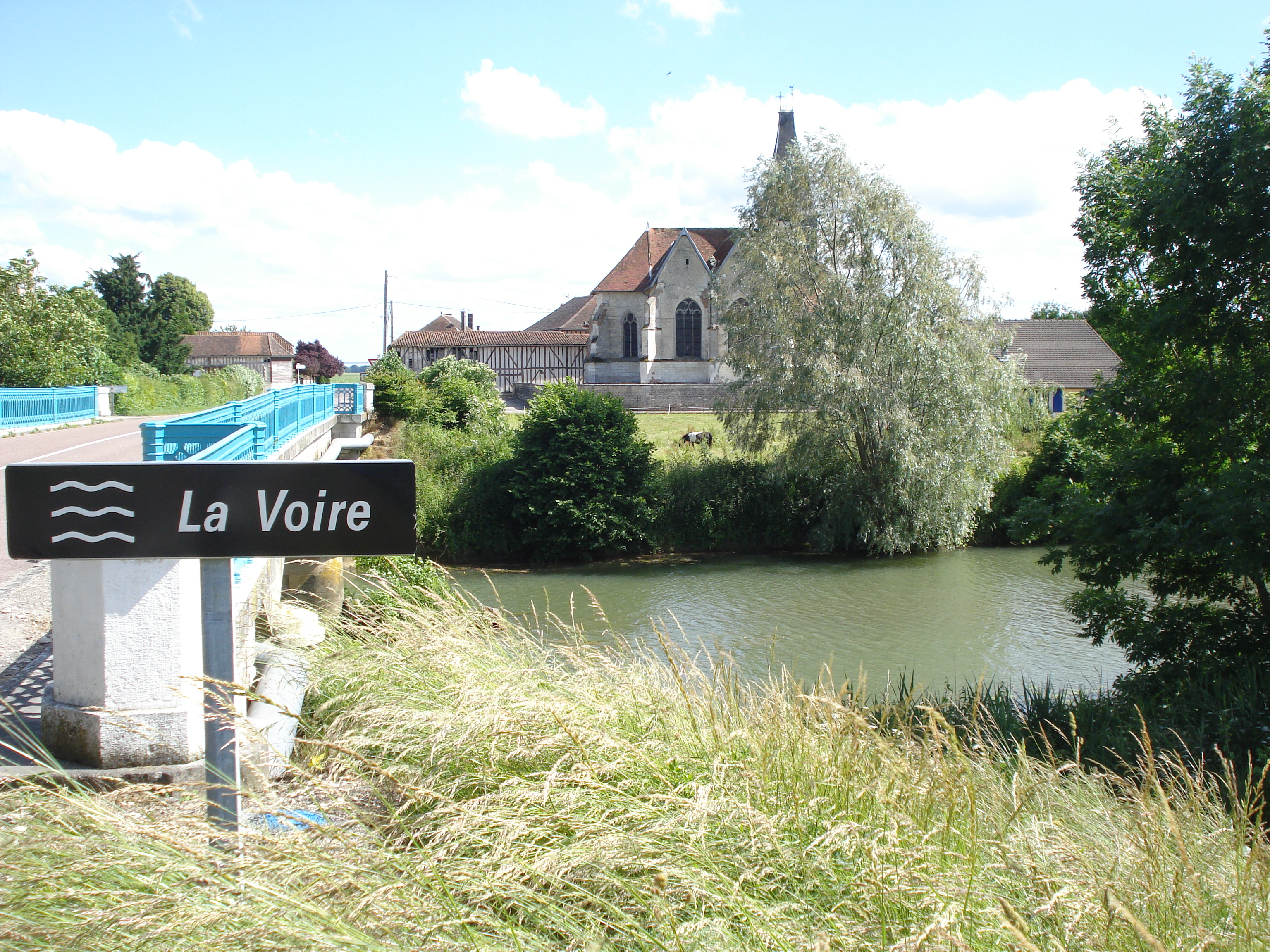 Rances (Aube, Fr), vue du pont sur la Voire